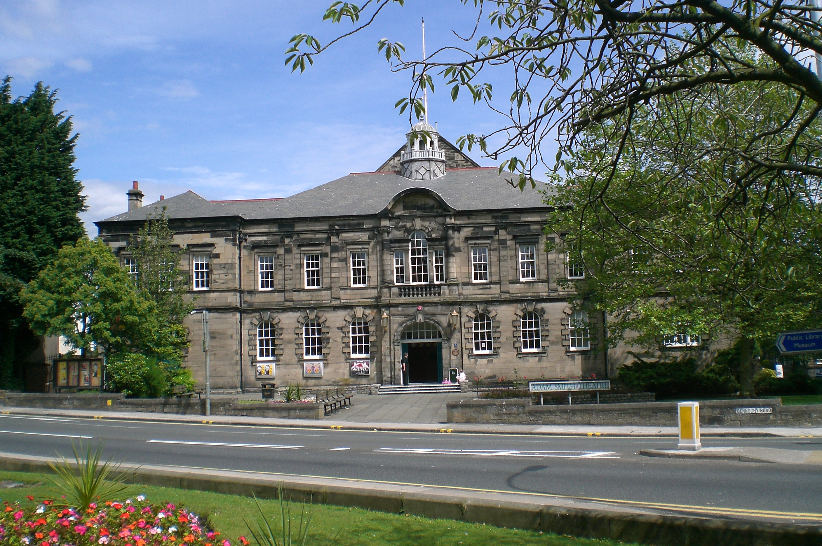 Niall Buchanan, Adam Smith Theatre